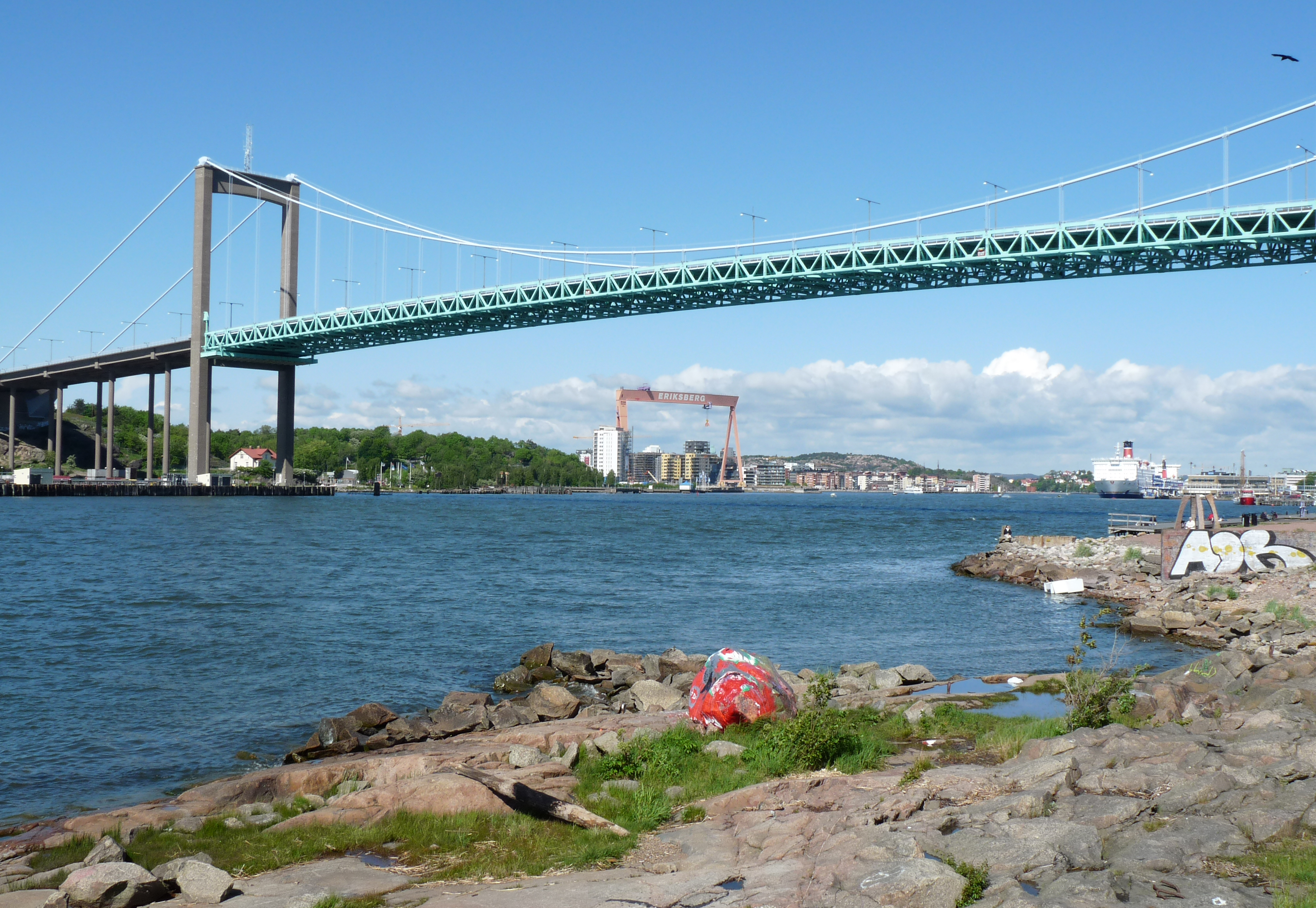 Röda sten, Gothenburg, Sweden